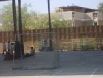 Yanbu International School Hard court